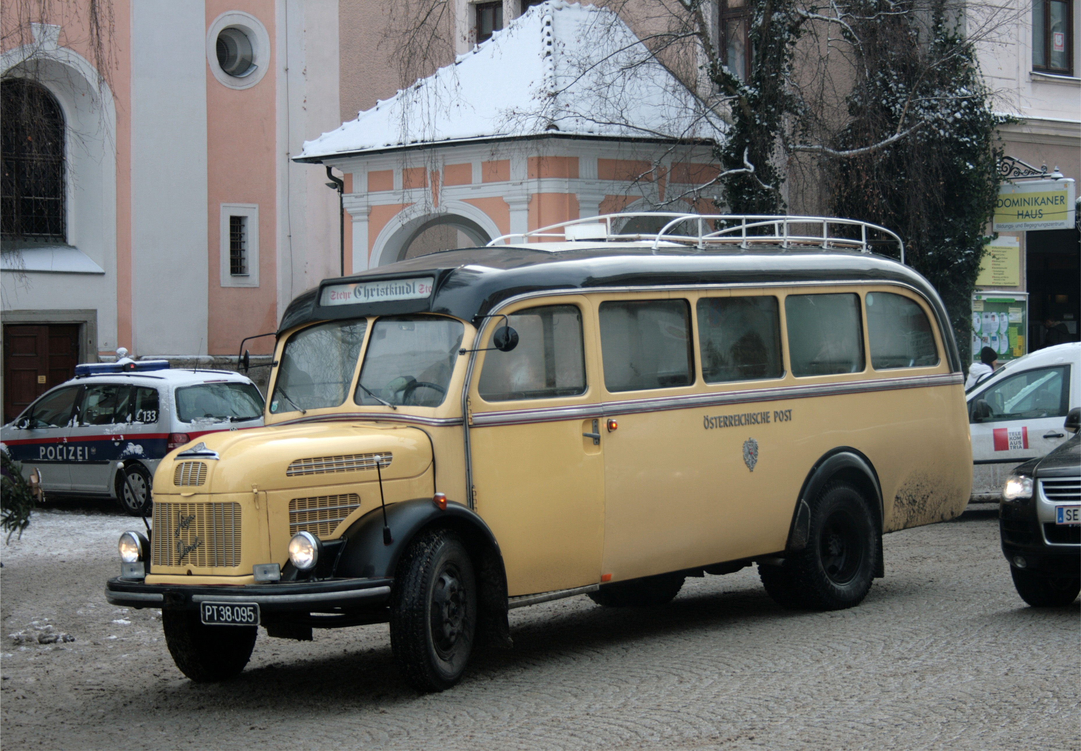 Historical Steyr bus (reg. PT38.095) in Steyr, Austria. Postbus from Austria operator.